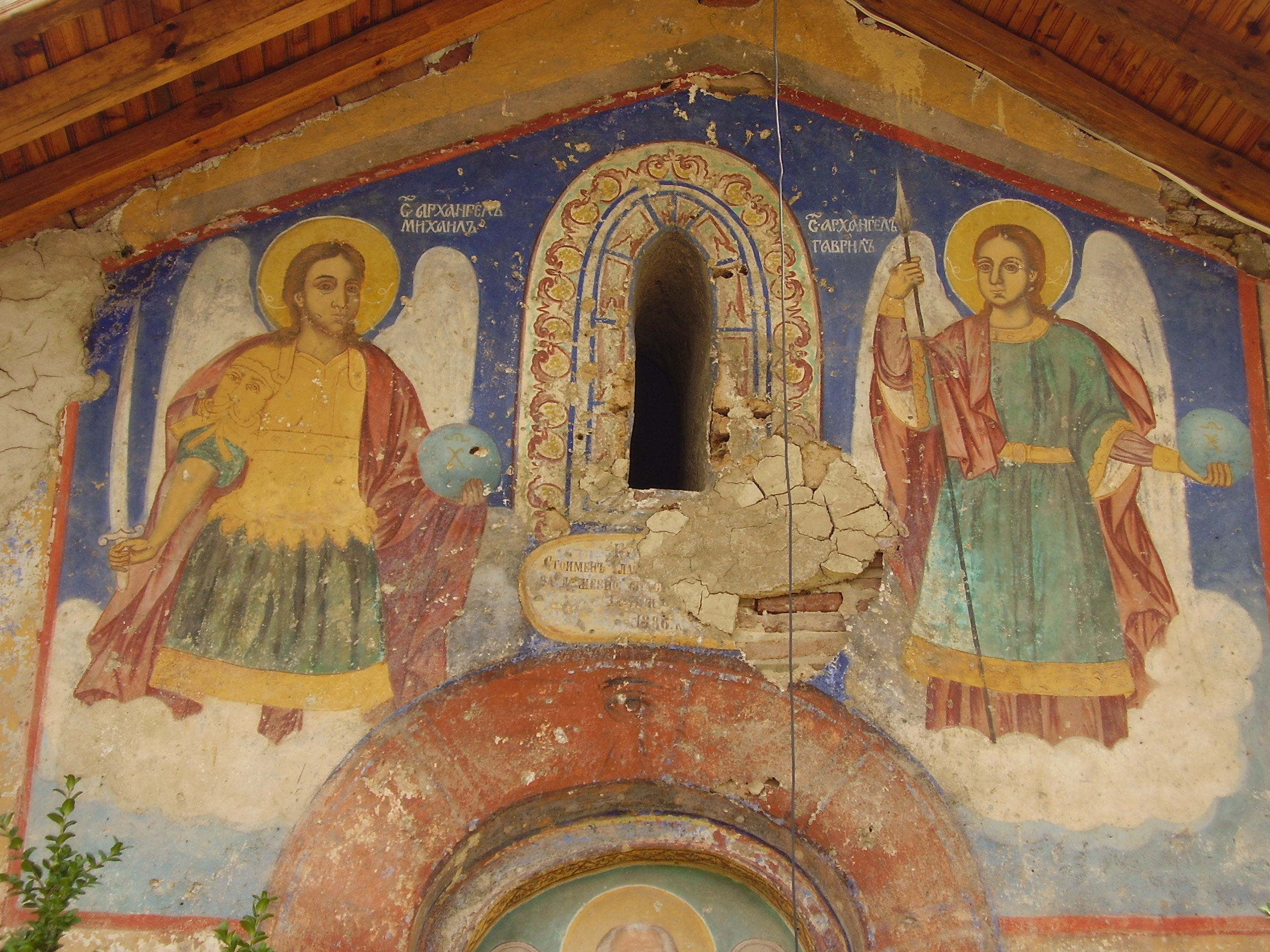 Iconic fresco of archangels Michael and Gavrail, over the entrance of church "Saint Nikola", village Slokoshtitsa, Bulgaria